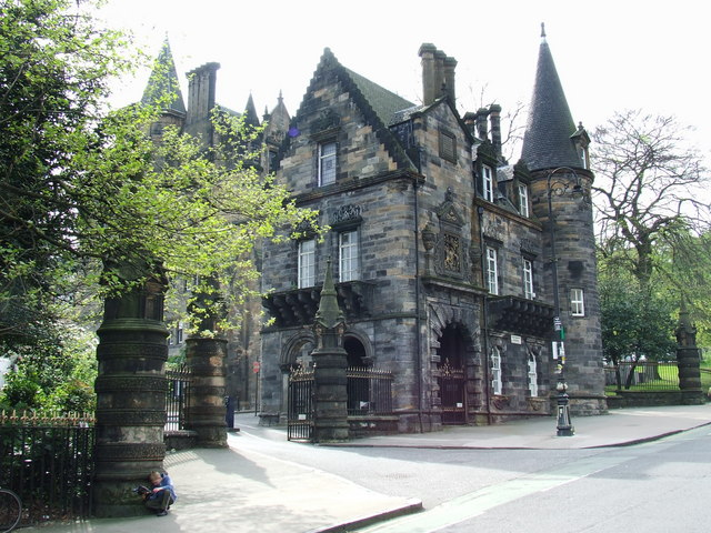 Pearce Lodge Gate house at the University of Glasgow on University Avenue.